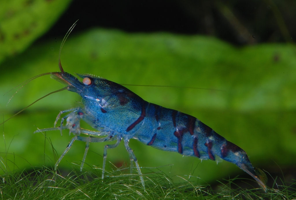 Caridina cf. cantonensis blue tiger is an easy to keep freshwater shrimp with blue color and orange eyes.